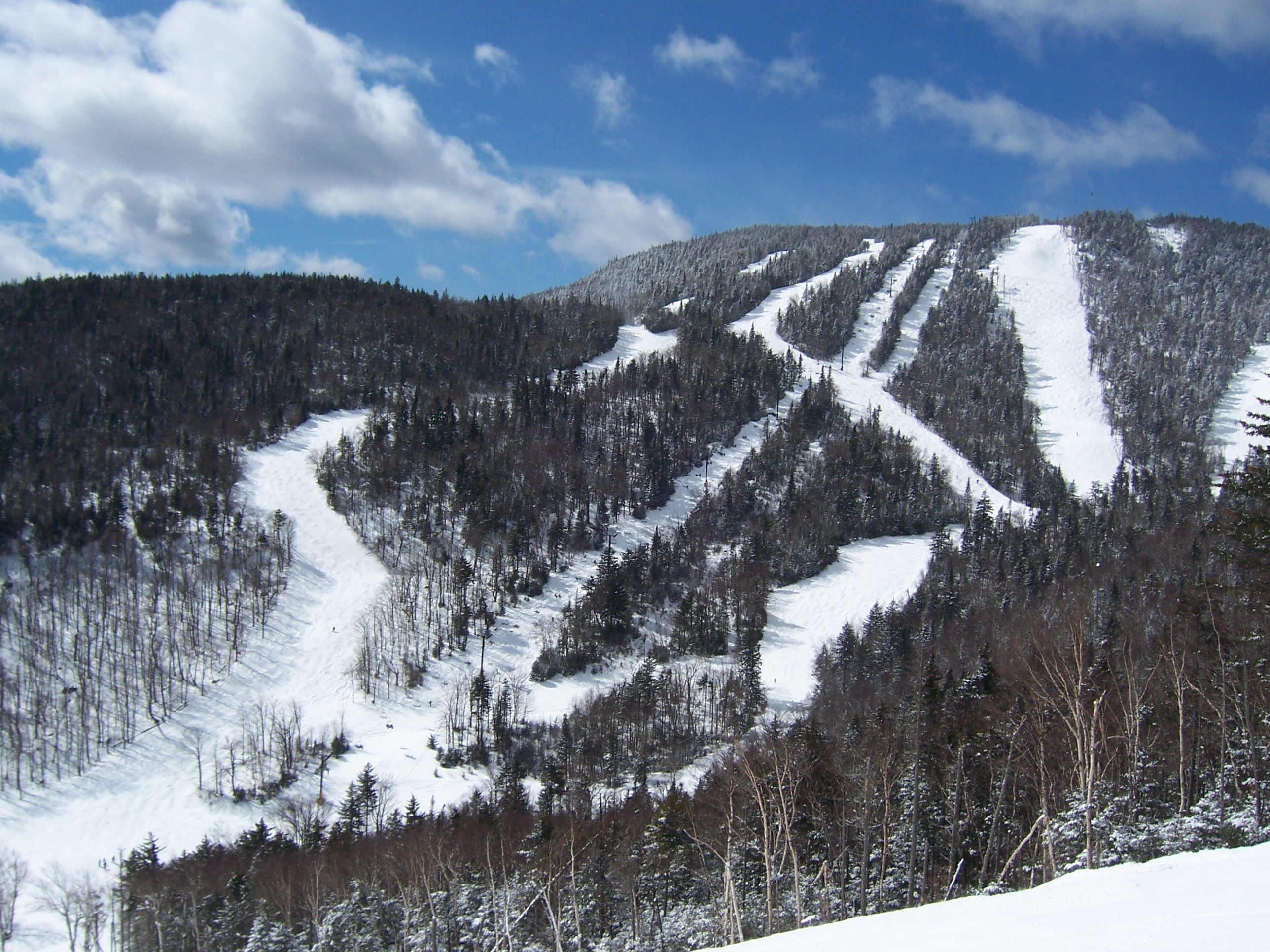 The Summit of Gore Mountain from the trail "Uncas". Gore Mountain is located within Gore Mountain (ski resort), in New York state.